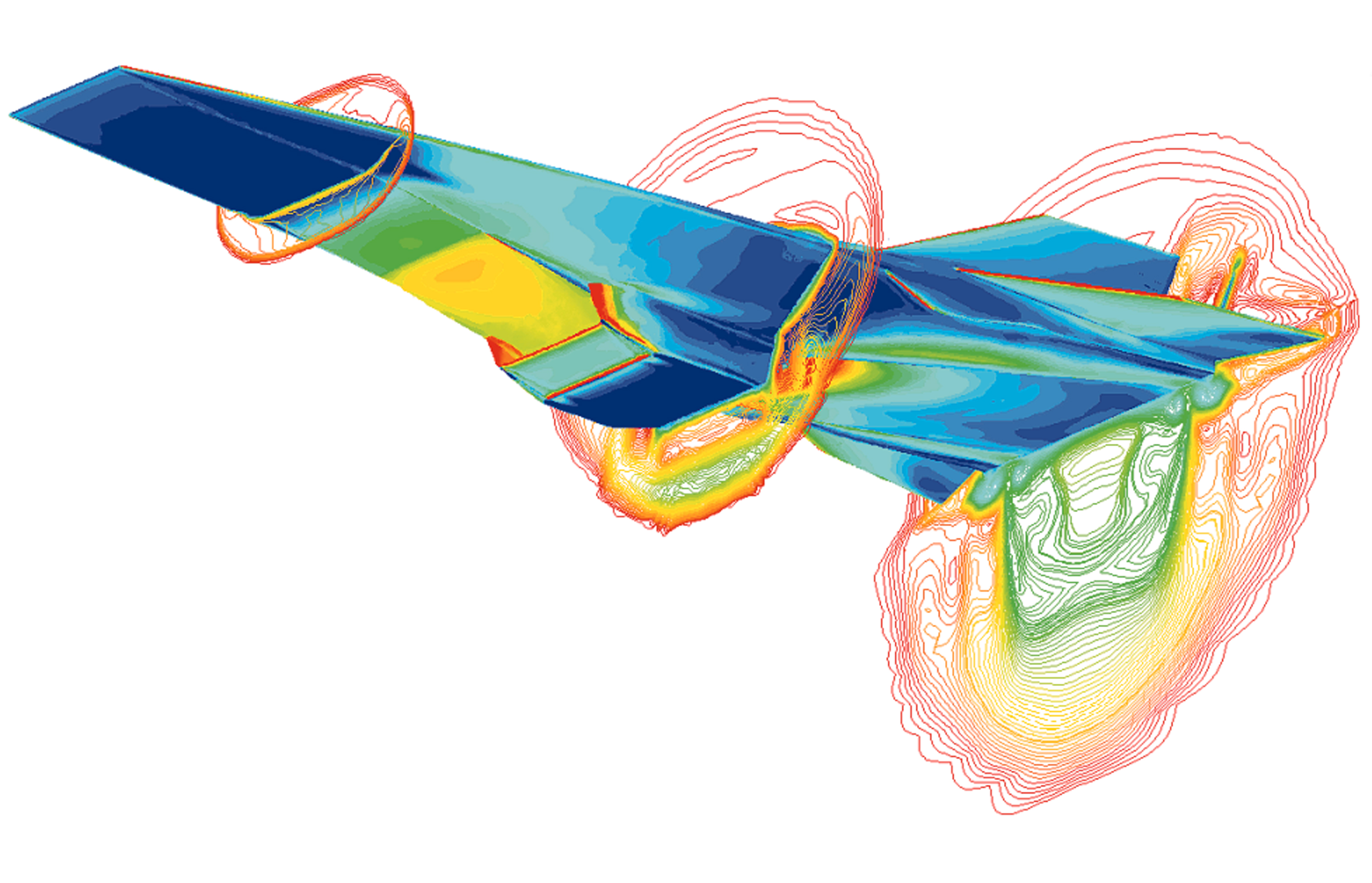 Computational fluid dynamic (CFD) image of the Hyper - X at the Mach 7 test condition with the engine operating.